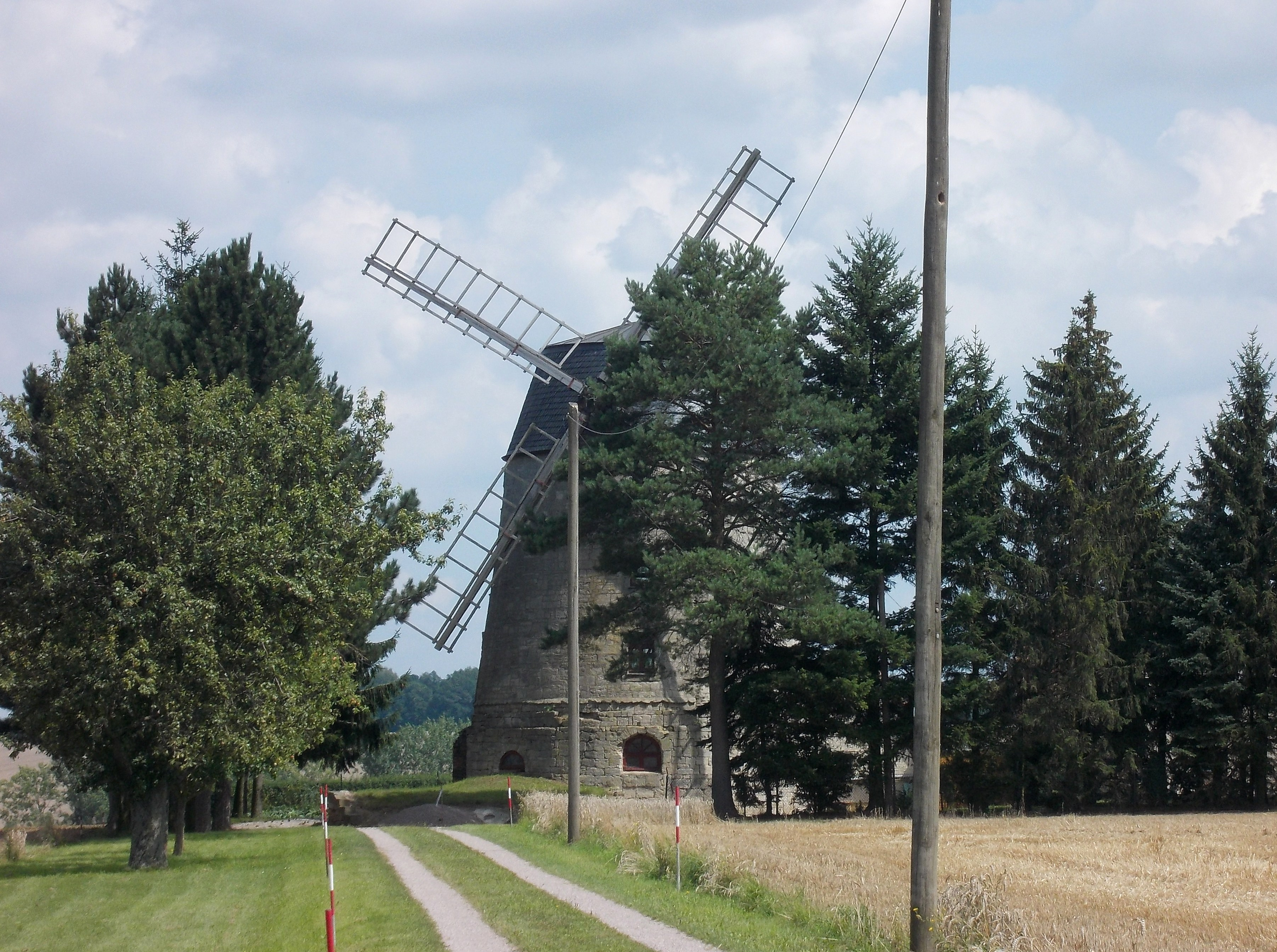 Punschrau windmill (Naumburg, district: Burgenlandkreis, Saxony-Anhalt)